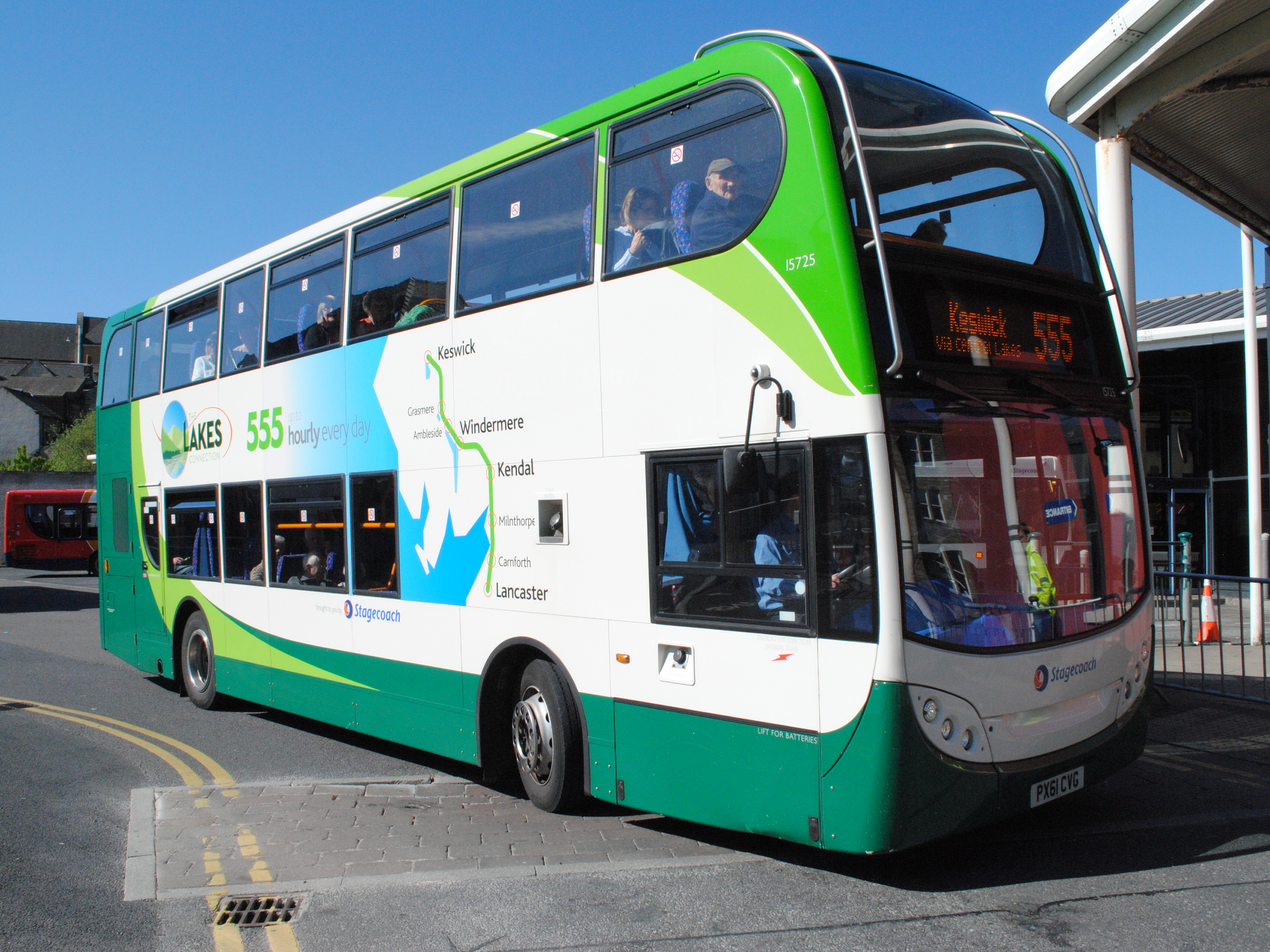 Scania N230UD Alexander Dennis Enviro 400